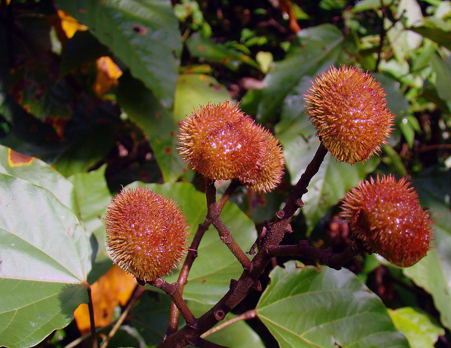 From the Indio Maize Reserve, southeast Nicaragua. In context at